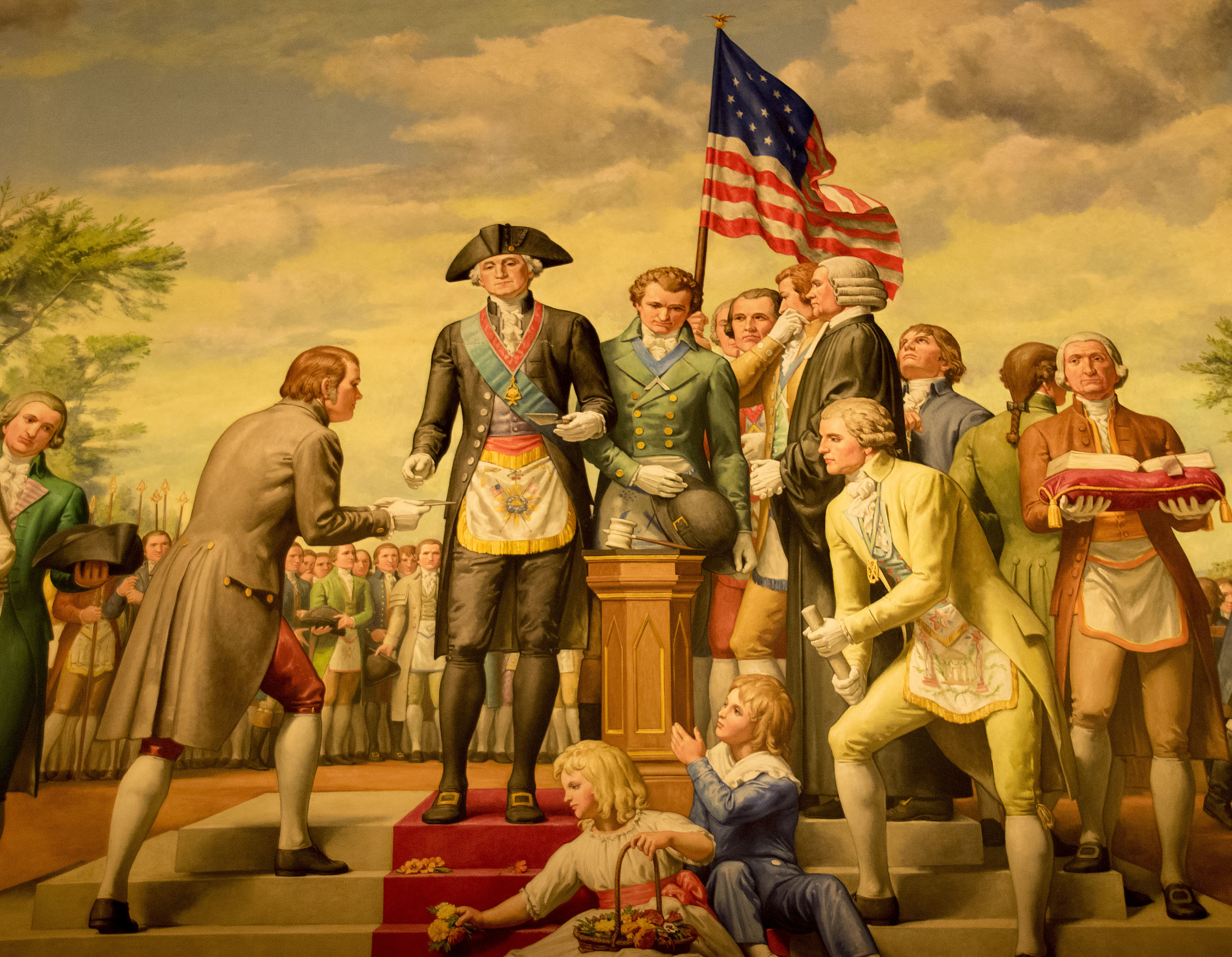 Mural by Allyn Cox of Washington Laying the Cornerstone of the U.S. Capitol (DC) in 1793 -- The George Washington Masonic National Memorial Shuter's Hill Alexandria (VA)